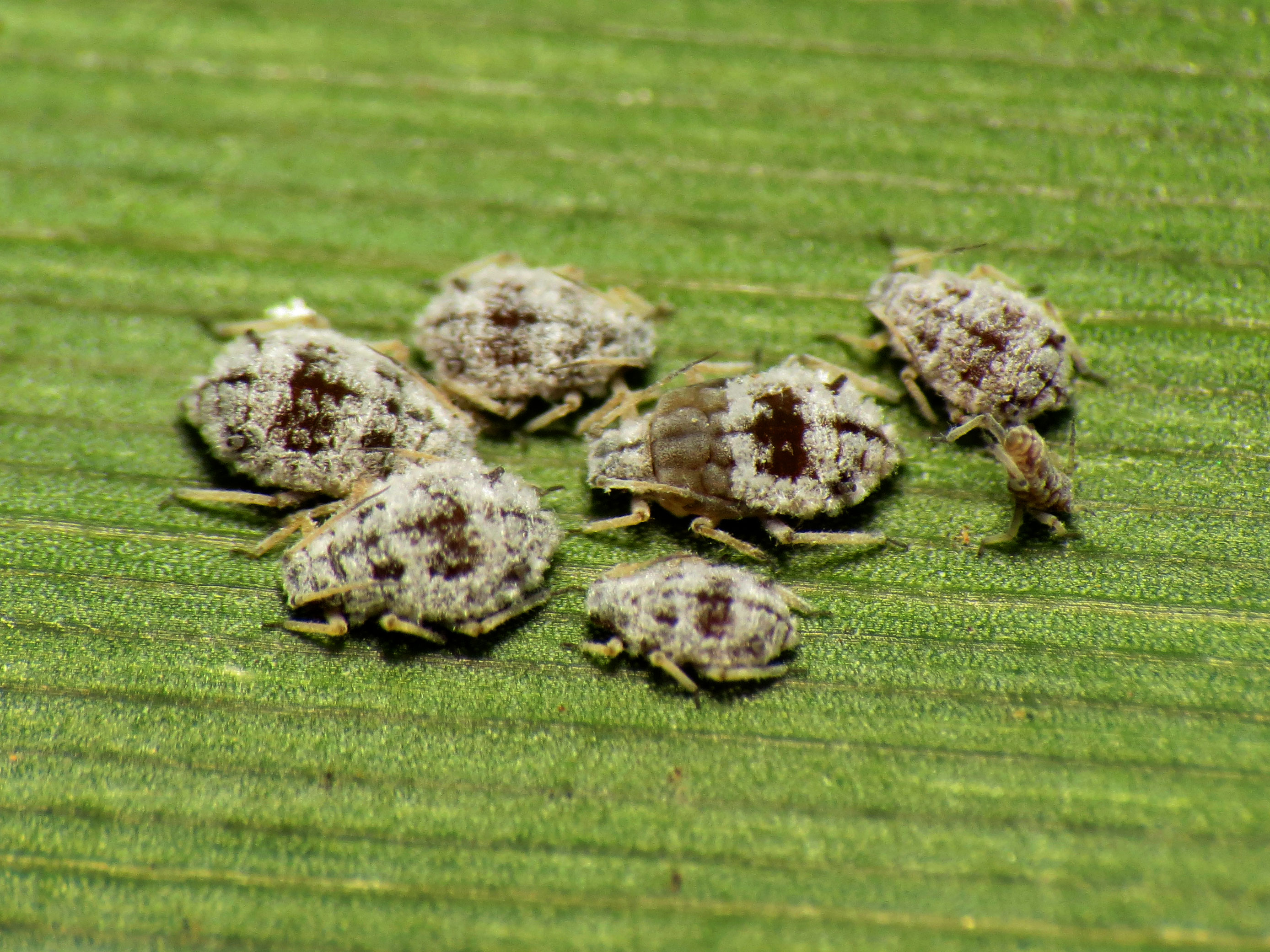 I think this is Rhopalosiphum padi, on Phragmites . Els Poblets, Alicante, Spain.